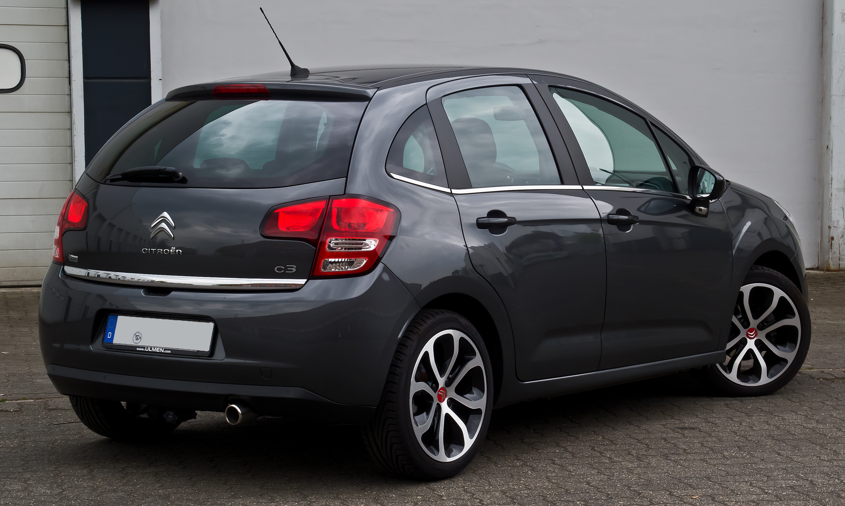 Citroën C3 e-HDi 110 Airdream Red Block (II)